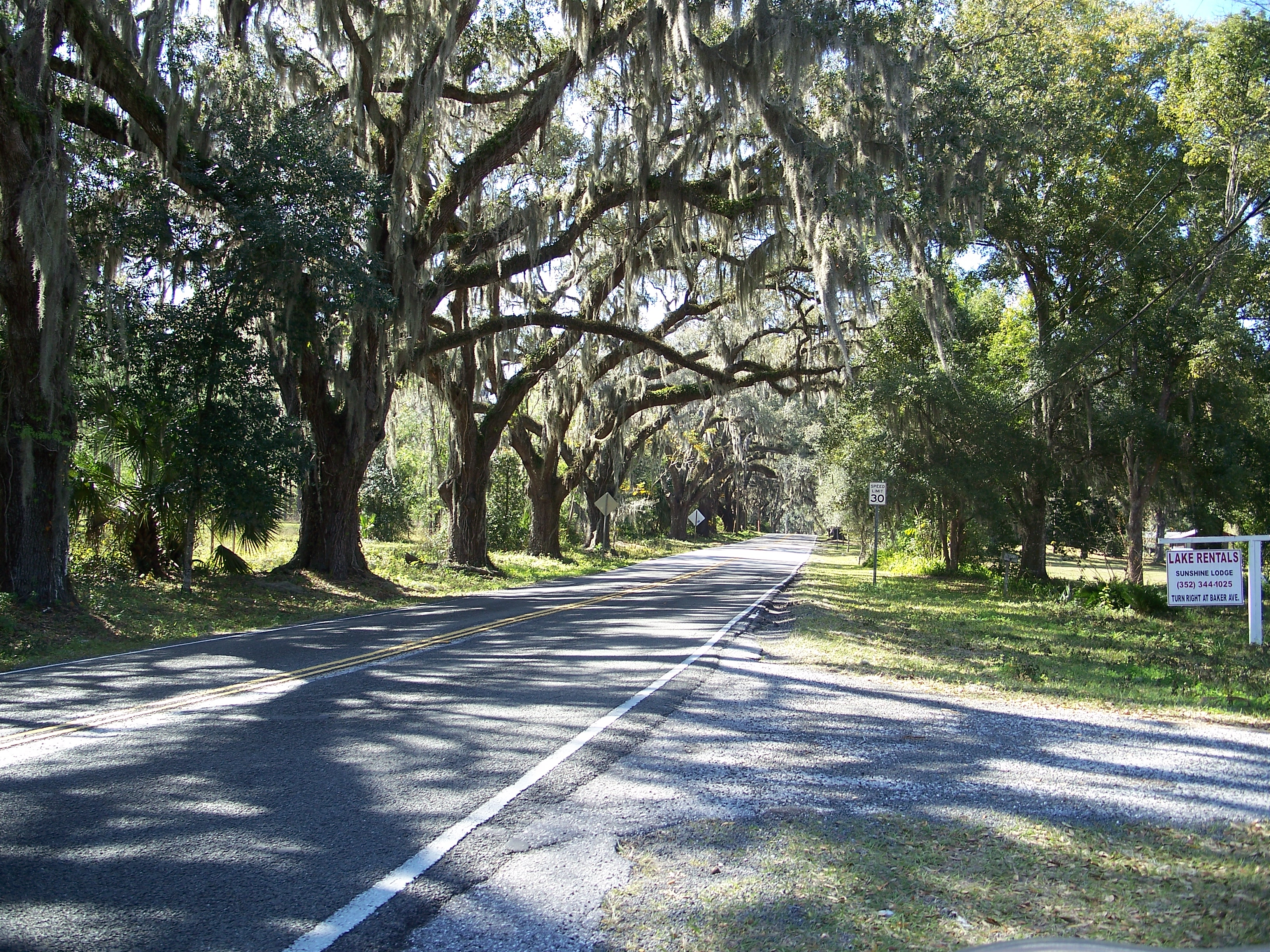 Eastern entrance on Orange Avenue into Floral City Historic District, in Floral City, Florida Object location28° 45′ 02″ N, 82° 17′ 27″ W